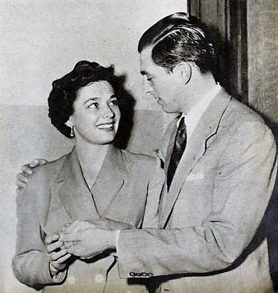 Ruth Roman e Mortimer Hall